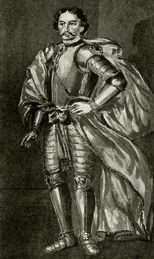 Prince John Corvin (1473 – 1504), the illegitimate son of the Hungarian King Matthias Corvinus. Unknown author.